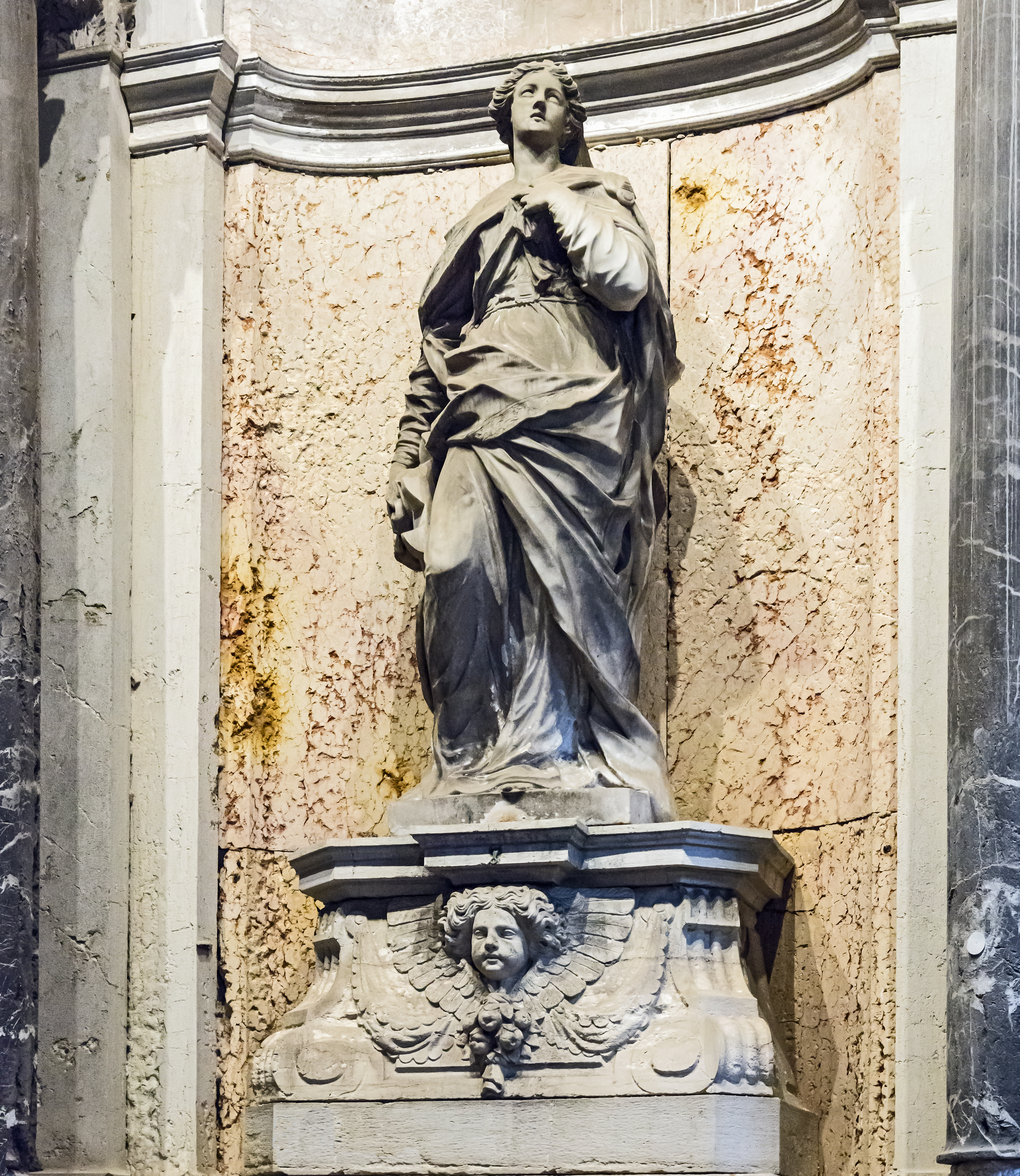 Church of Santa Caterina Venice. Statue of St. Catherine of Alexandria.